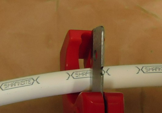 A handyman project to redo pipes behind the shower. This cutter makes a clean incision in half inch PEX pipe.